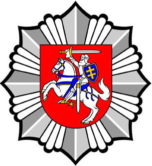 Its an emblem of the Lithuania's police